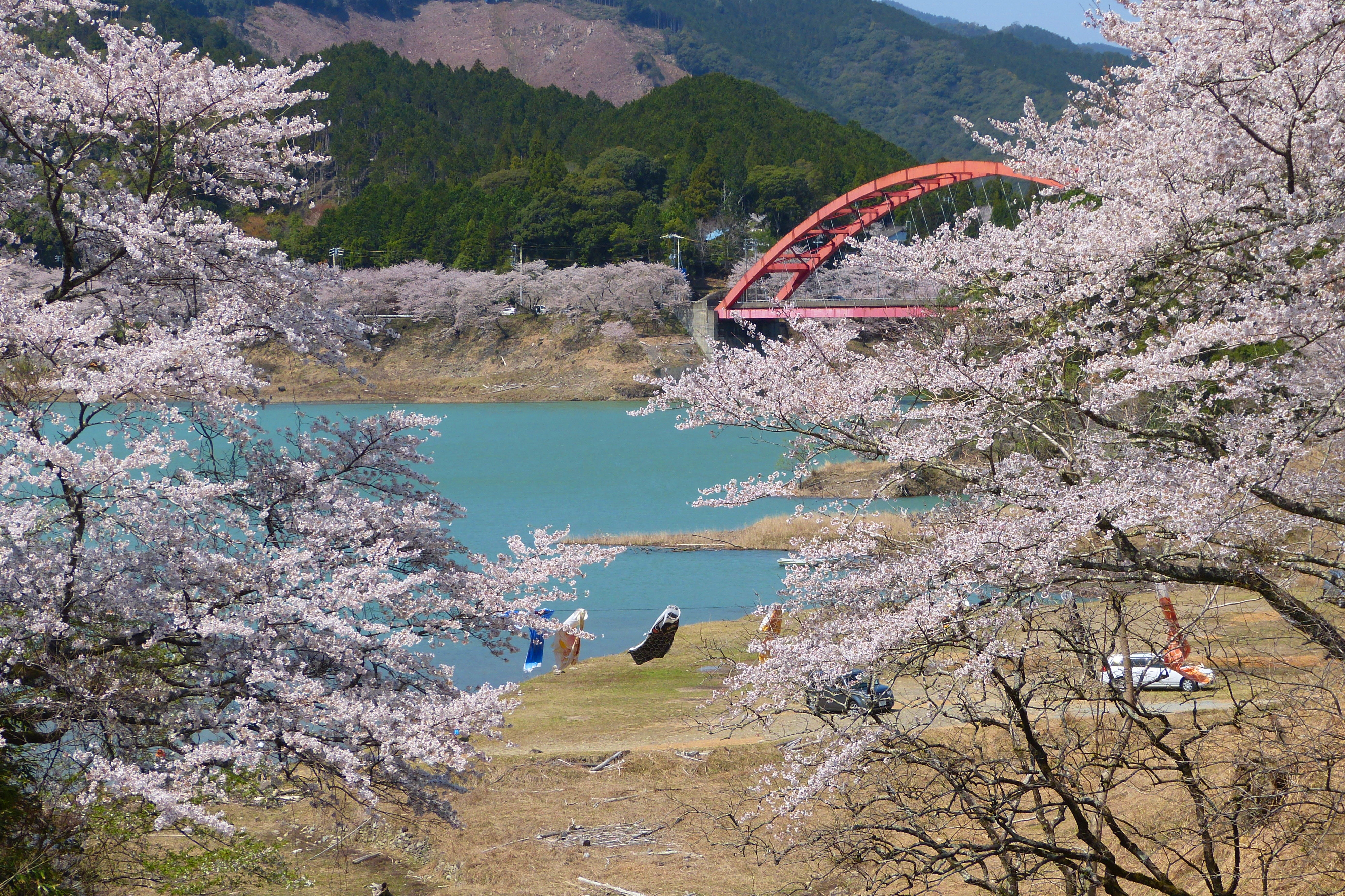 The cherry tree of Sada (Shitikawa Dam lakesaide, Japan's Top 100 famous place of cherry trees),Wakayama prefecture,Japan